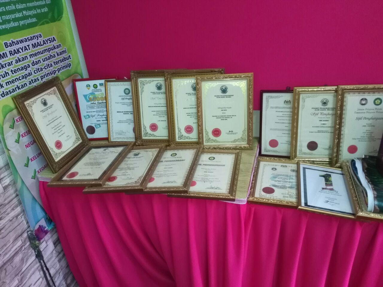 Sijil